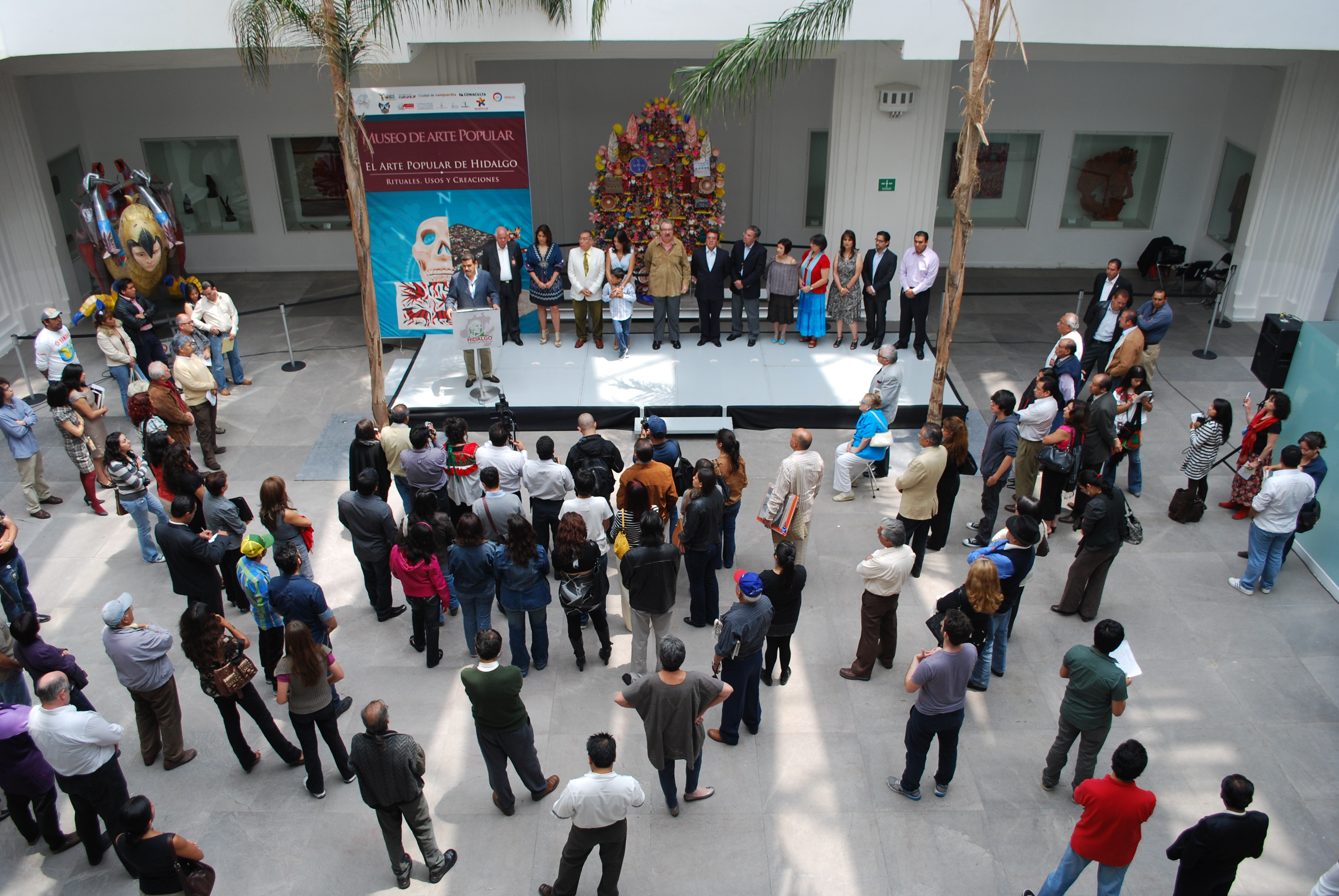 Opening ceremony of an exhibition dedicated to the crafts of Hidalgo state at the Museo de Arte Popular, Mexico City